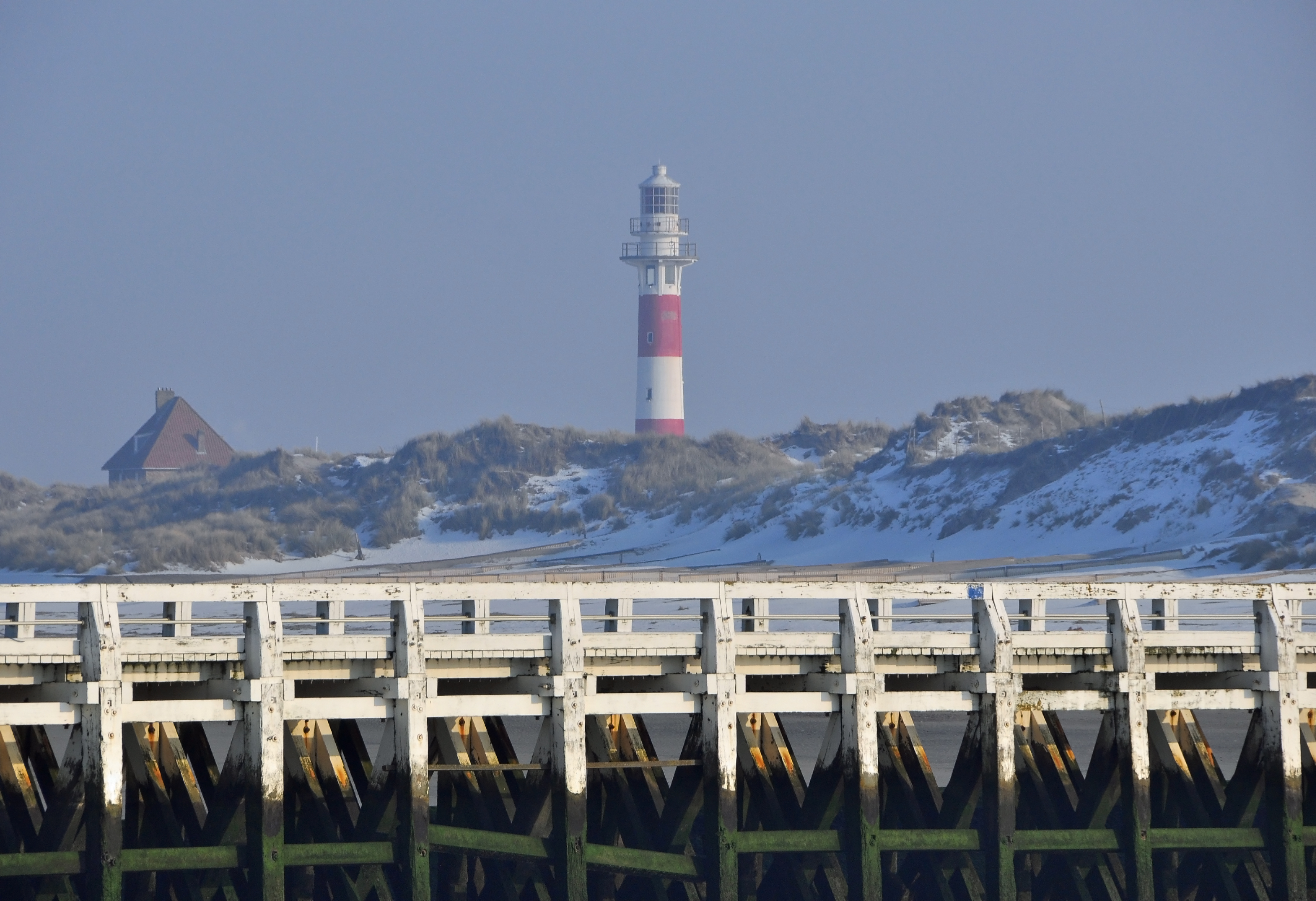 Nieuwpoort (Belgium): the lighthouse